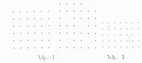 Նկար 1 և 2